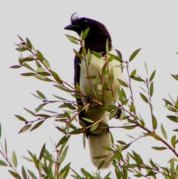 Photo by: Maria Bedacht